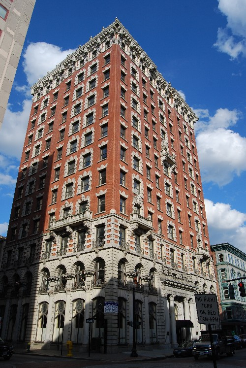 Union Trust Company Building, Providence, Rhode Island